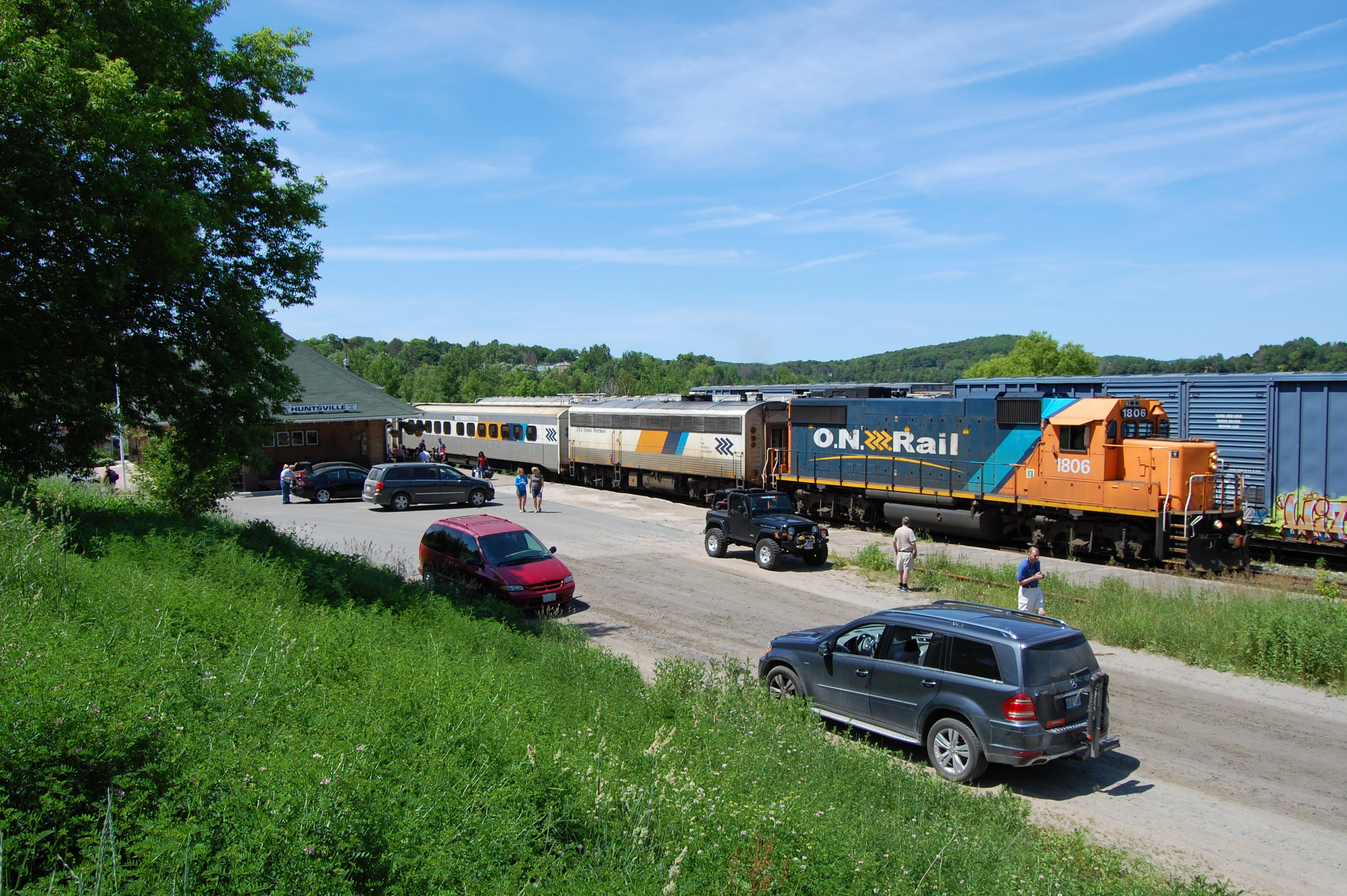 Passenger train at Huntsville on June 19, 2011